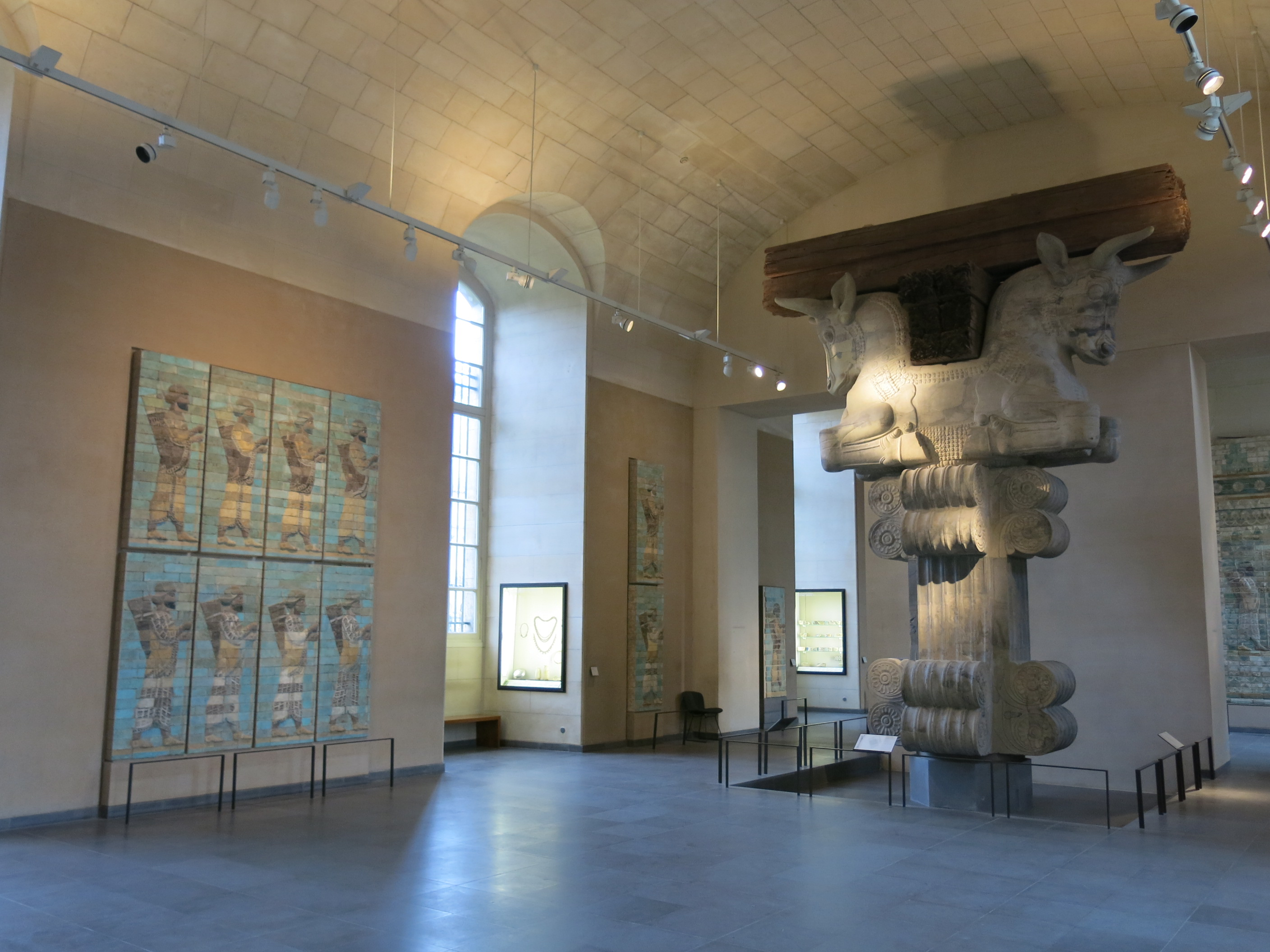 Room of Louvre museum with bull headed column (Paris, France).